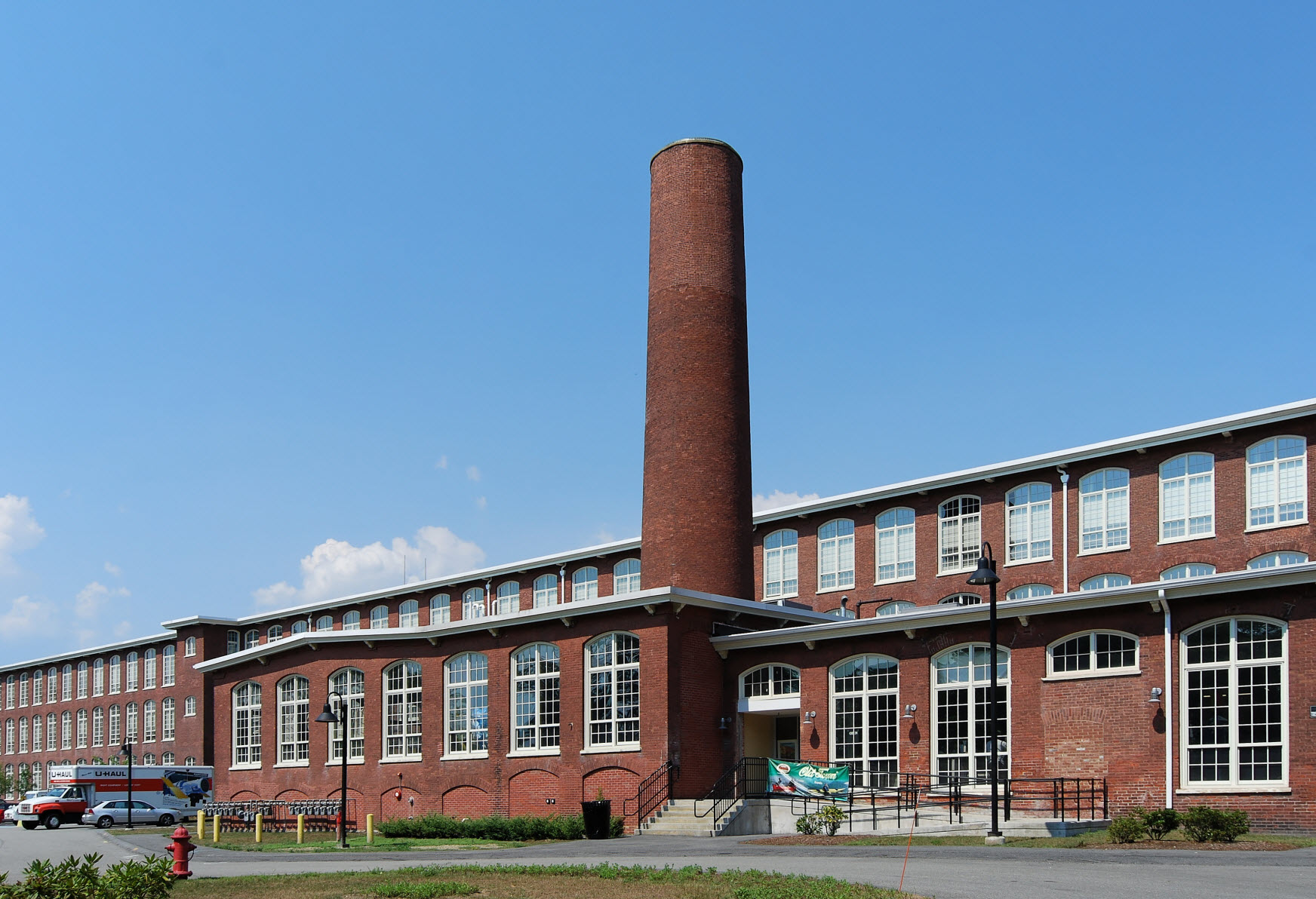 Robertson on the River, (formerly Cohannet Mills), Taunton, Massachusetts